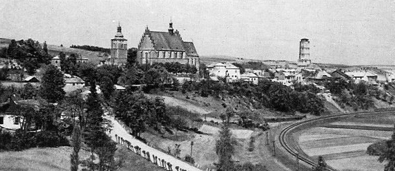 General view of Biecz (after the Great Fire)